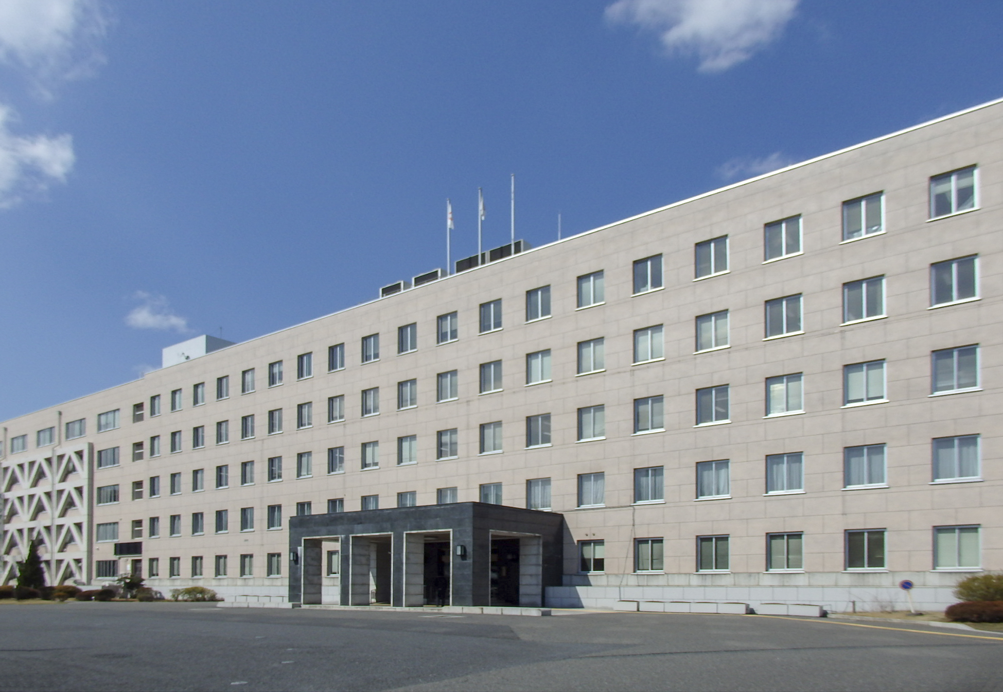 Saitama Prefectural Government Office in Urawa-ku, Saitama, Japan